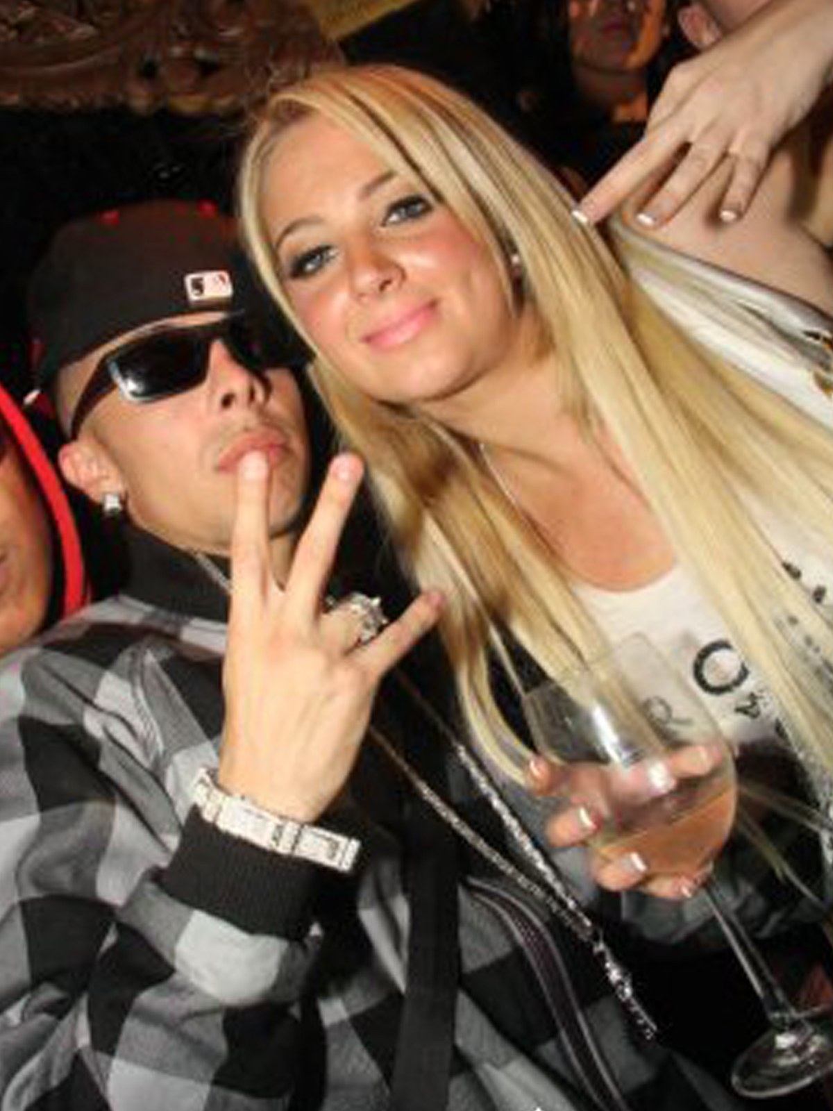 Dappy and Tulisa Contostavlos pictured in 2012 at Tup Tup Palace nightclub, Newcastle Upon Tyne, UK.